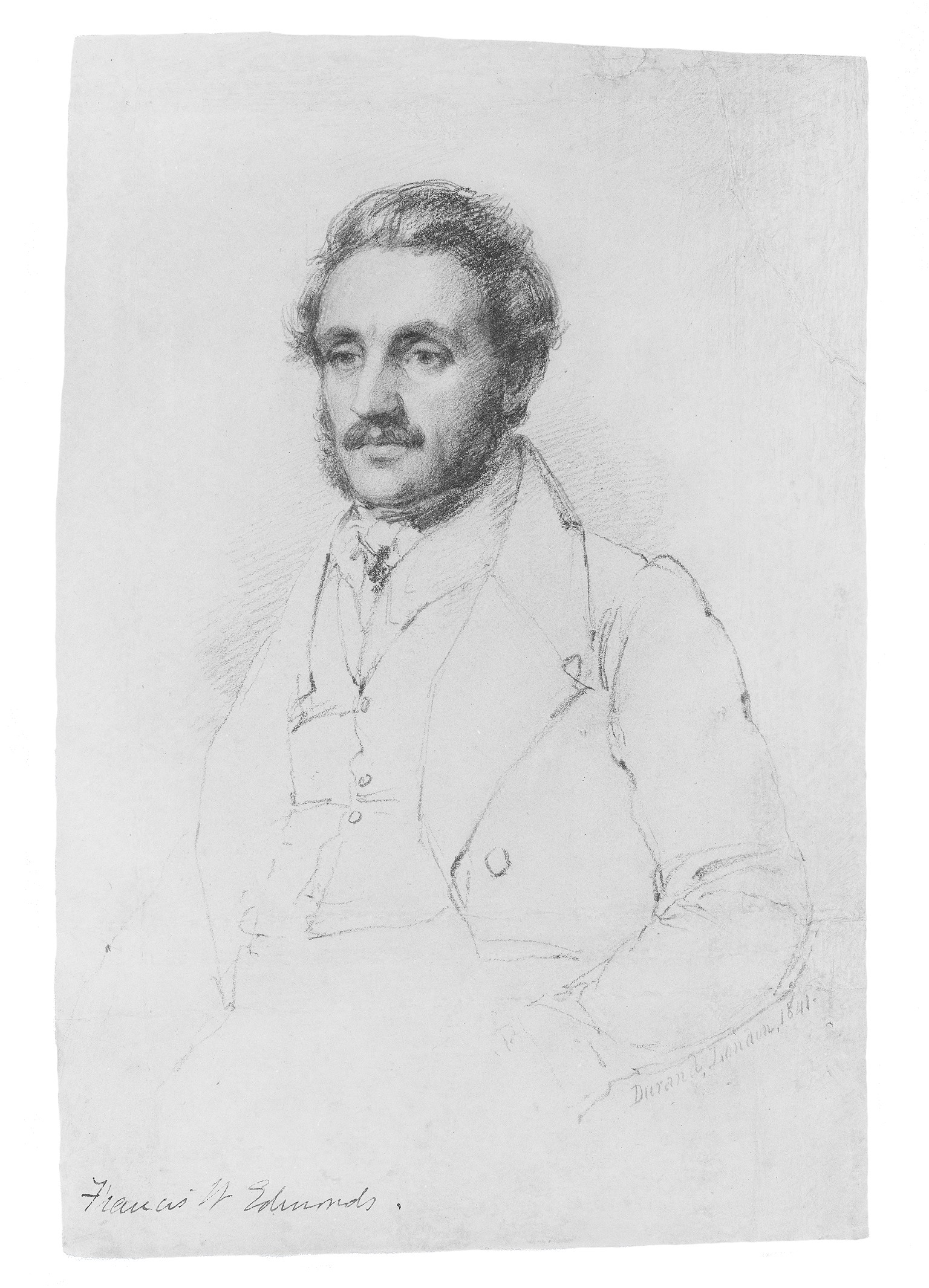 Francis William Edmonds Artist: Asher Brown Durand (American, Jefferson, New Jersey 1796–1886 Maplewood, New Jersey) Date: 1841 Medium: Graphite on tan wove paper Dimensions: 8 1/2 x 5 1/2 in. (21.6 x 14 cm) Classification: Drawings Credit Line: Sheila and Richard J. Schwartz Fund, 1987 Edmonds, a prominent businessman, leading participant in the cultural institutions of New York, amateur painter and National Academician traveled to Europe in 1841, joining Durand in Rome. Although this drawing is quite similar to the artist’s oil portrait of Edmonds painted earlier in their European tour, here the sitter appears more introspective. Edmonds’s inward expression is emphasized by the contrast between Durand’s finely nuanced rendering of the sitter’s heavy facial features and his summary indication of the rest of the figure. Durand’s decision to draw the portrait may have been prompted by his desire to record Edmonds’s changed physical appearance (the thick mustache and sideburns do not appear in the oil portrait painted a few months before) and as a remembrance of their association while abroad.